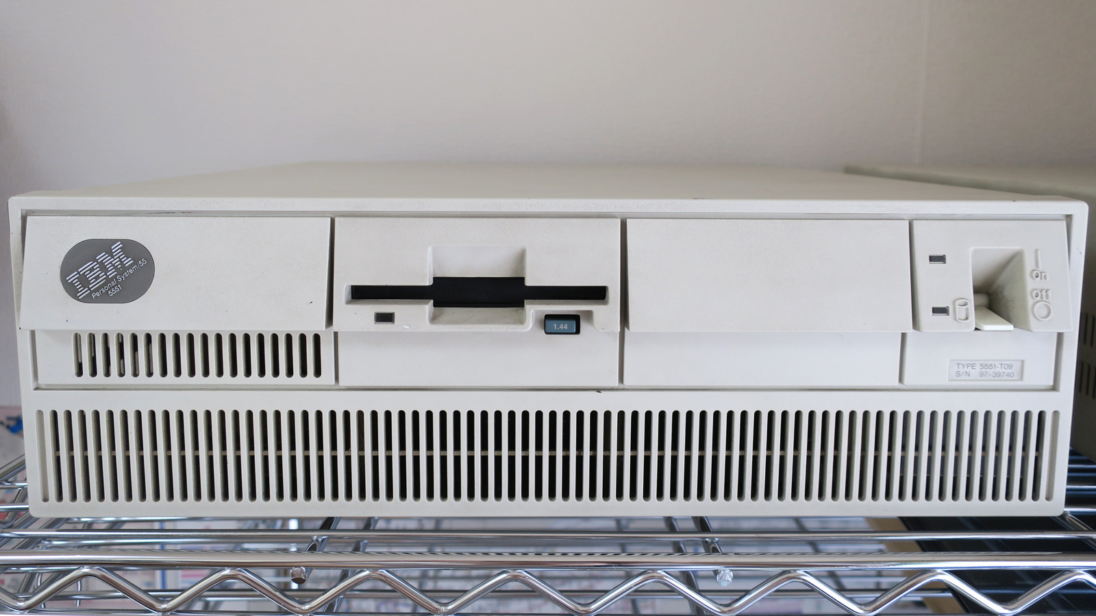 Front of the IBM Personal System/55 Model 5550-T (5551-T09).